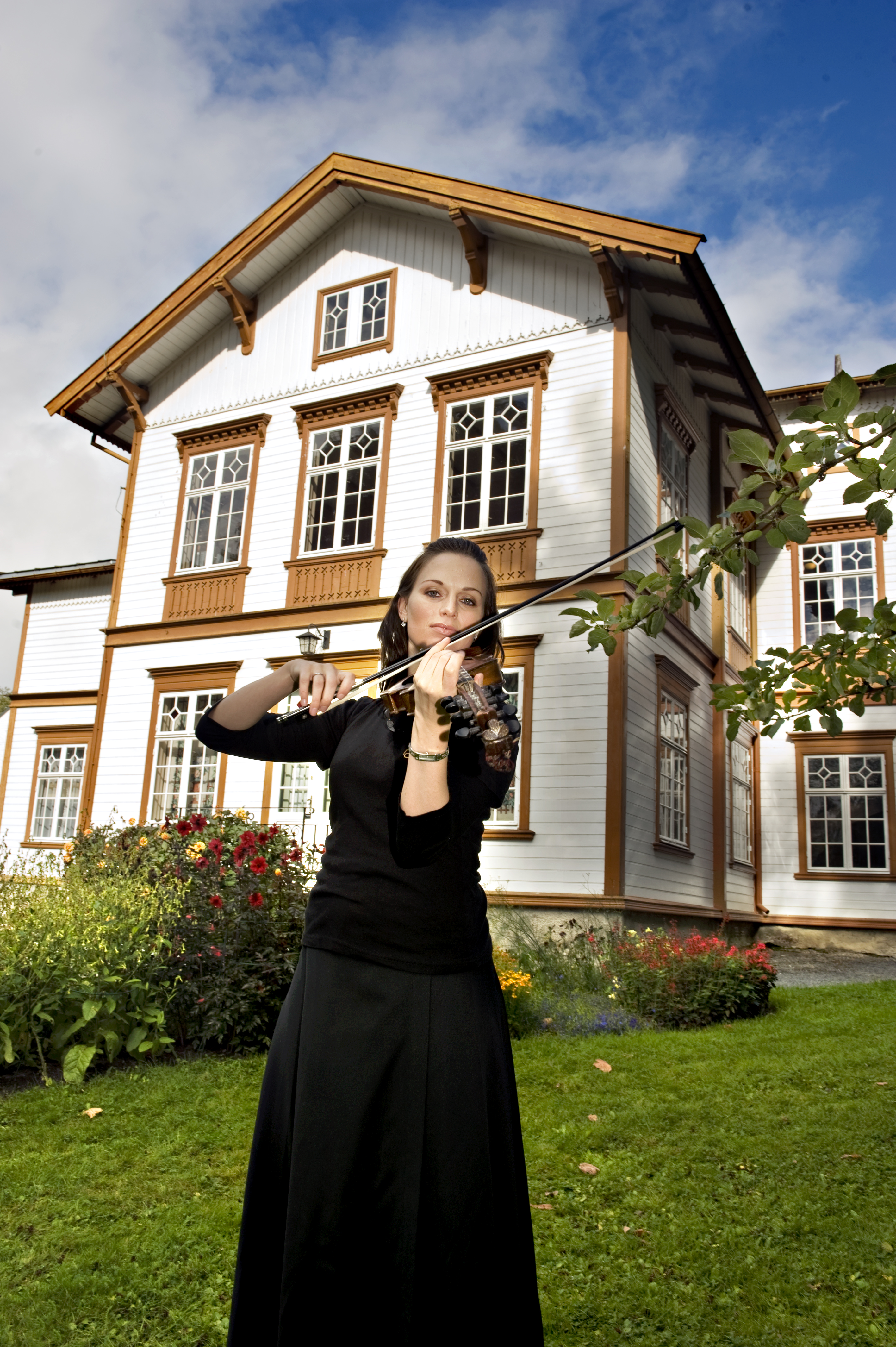 Ringve - Norways national museum of music and musical instruments.